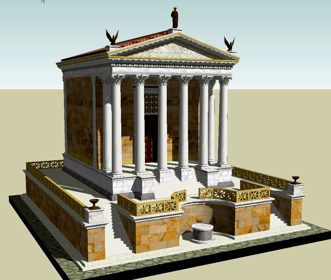 This is a derivative work of a 3D, Computer generated image of the Temple of Caesar by the model maker, Lasha Tskhondia - L.VII.C.[1]. Variations to the original model include shadows, adjusted for good lighting as well as the file being adjusted for color and contrast.